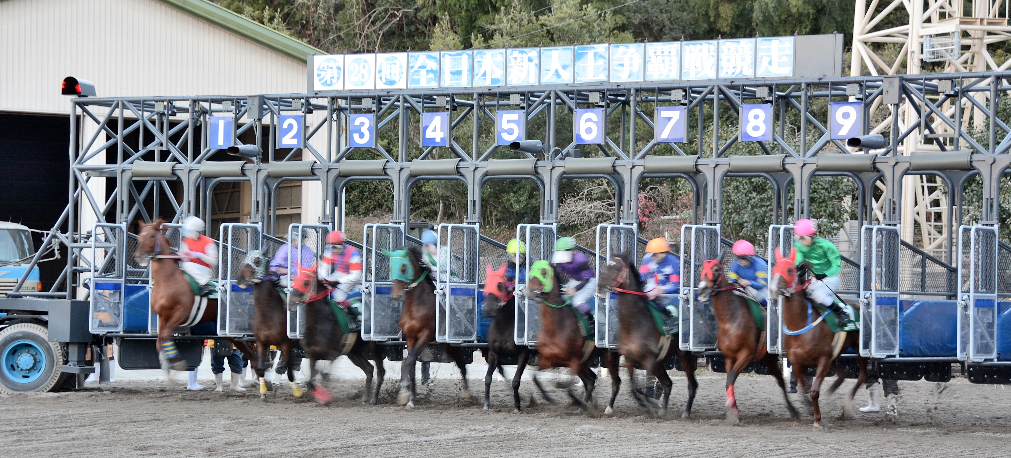 A race for the 28 all Japan rookie King, supremacy.